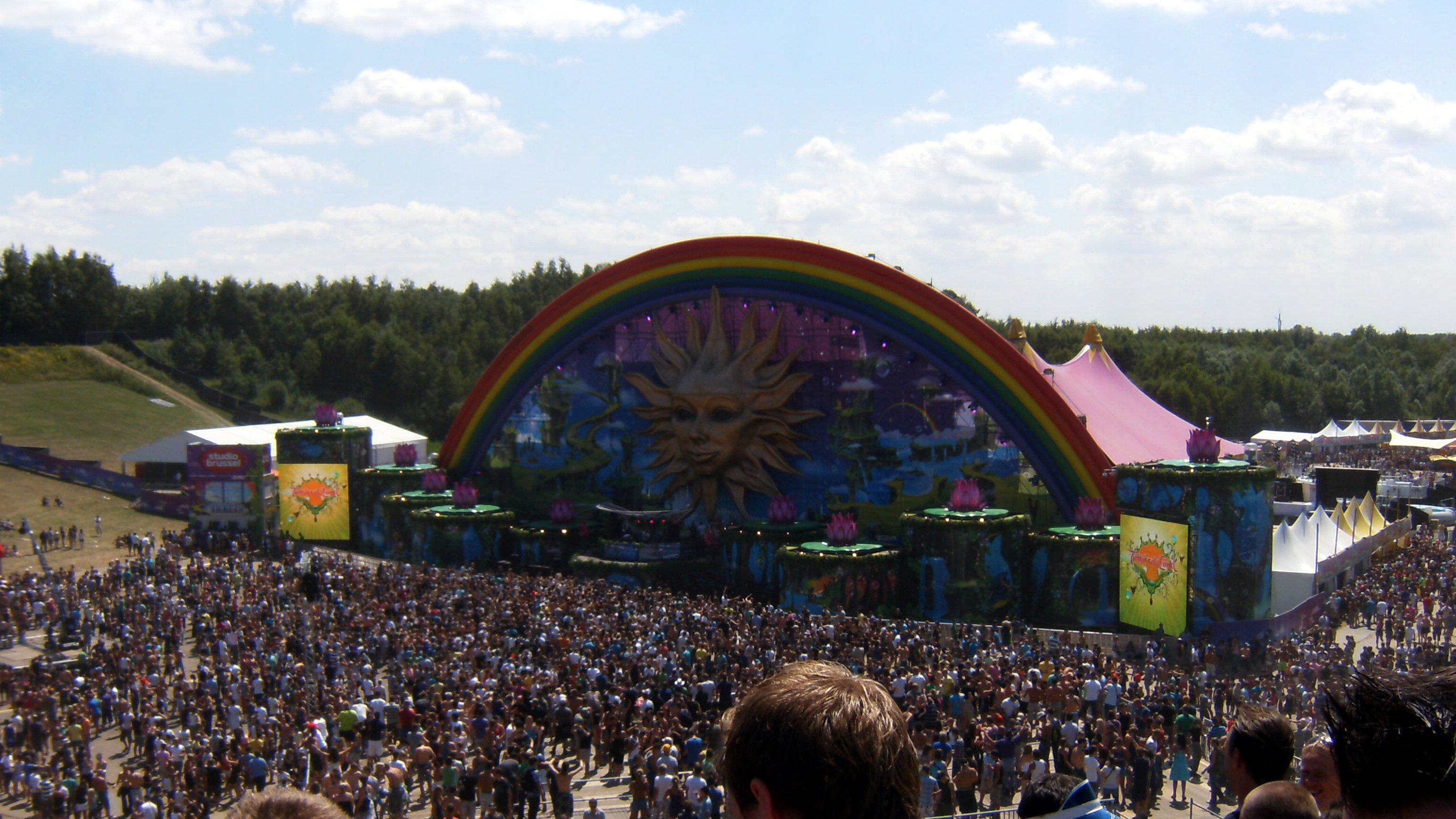 Tomorrowland Mainstage 2010 (cropped image). This cropped version removes the timestamp and a possibly identifiable face.